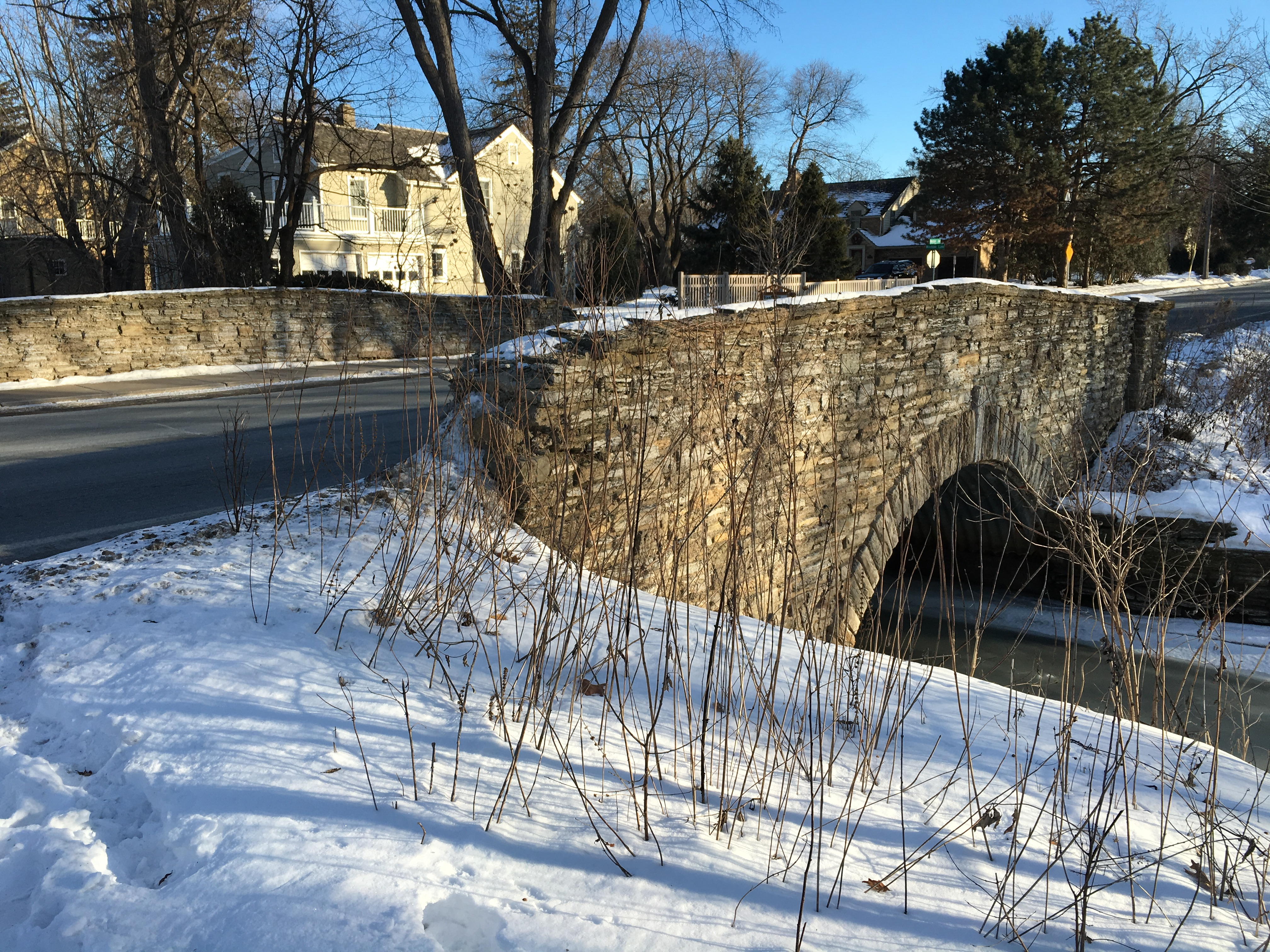 Bridge No. 90646 in Edina, Minnesota, listed on the National Register of Historic Places.